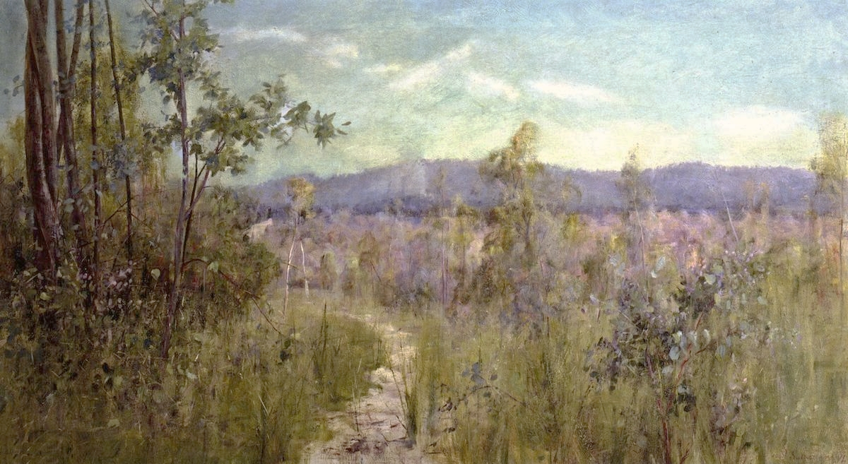 To the Dandenongs, oil on canvas.